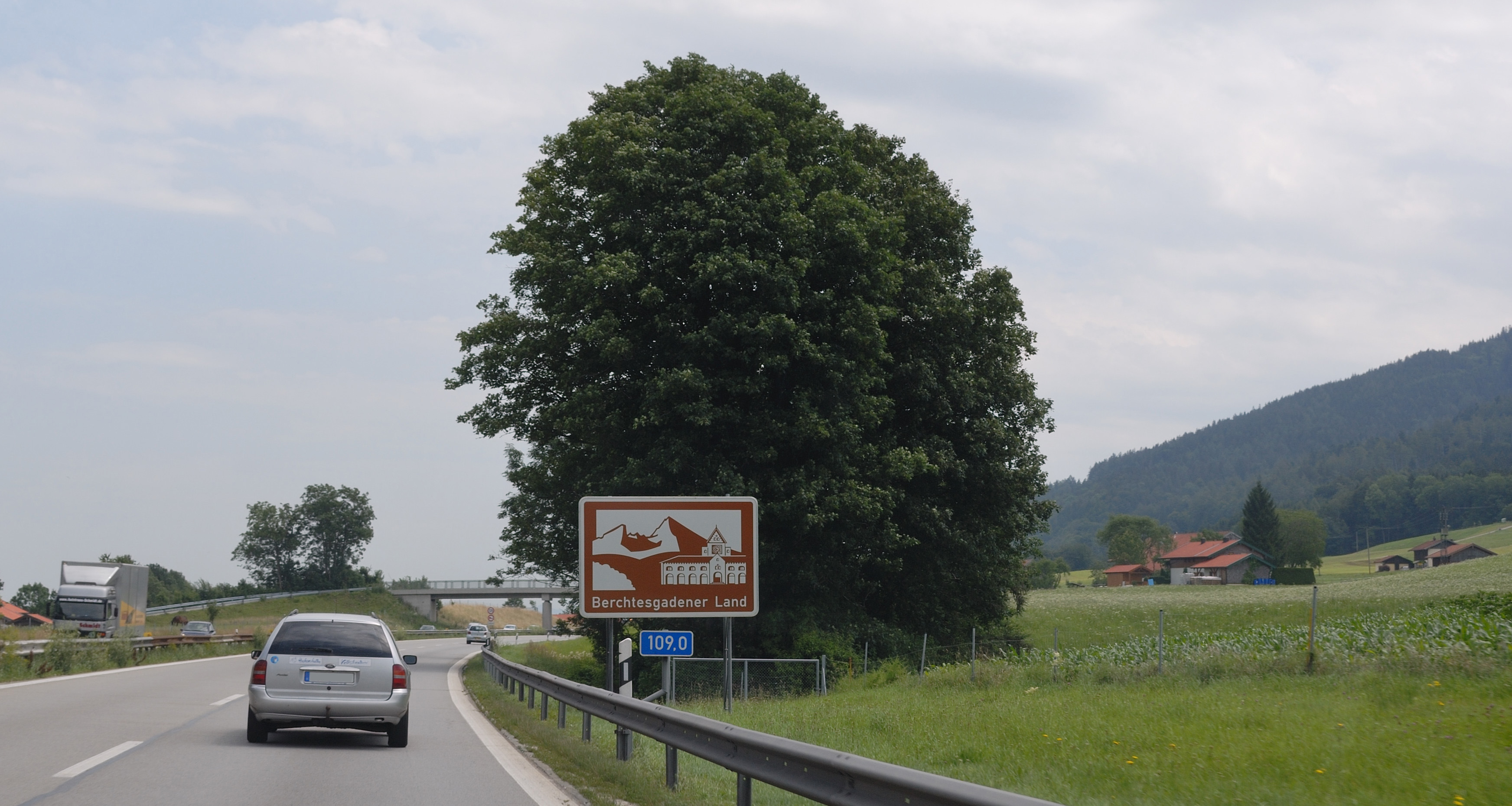 Road sign for Berchtesgadener Land. Road shot from A 8.